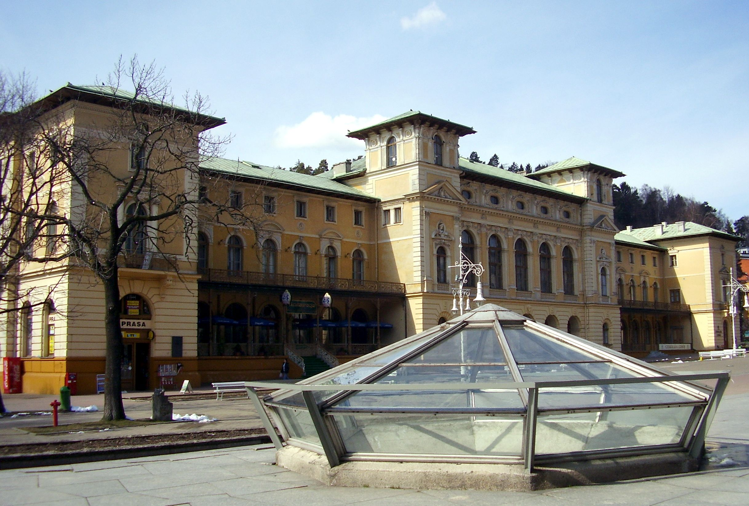 Krynica-Zdroj Health Resort